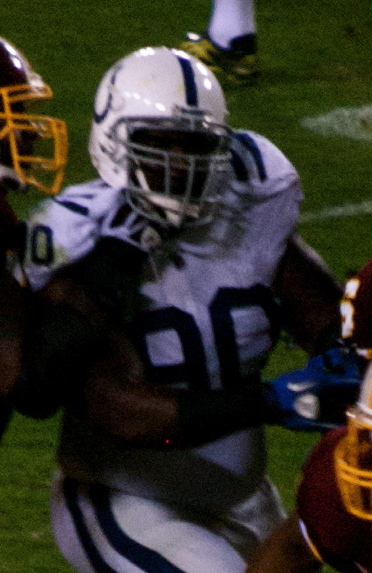 Colts vs Redskins, 2010